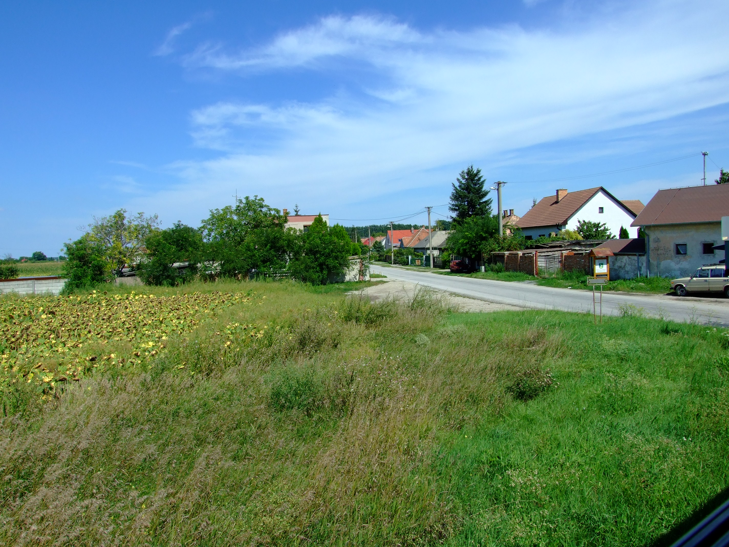 Michal na Ostrove village in Trnava Region, SKhelp